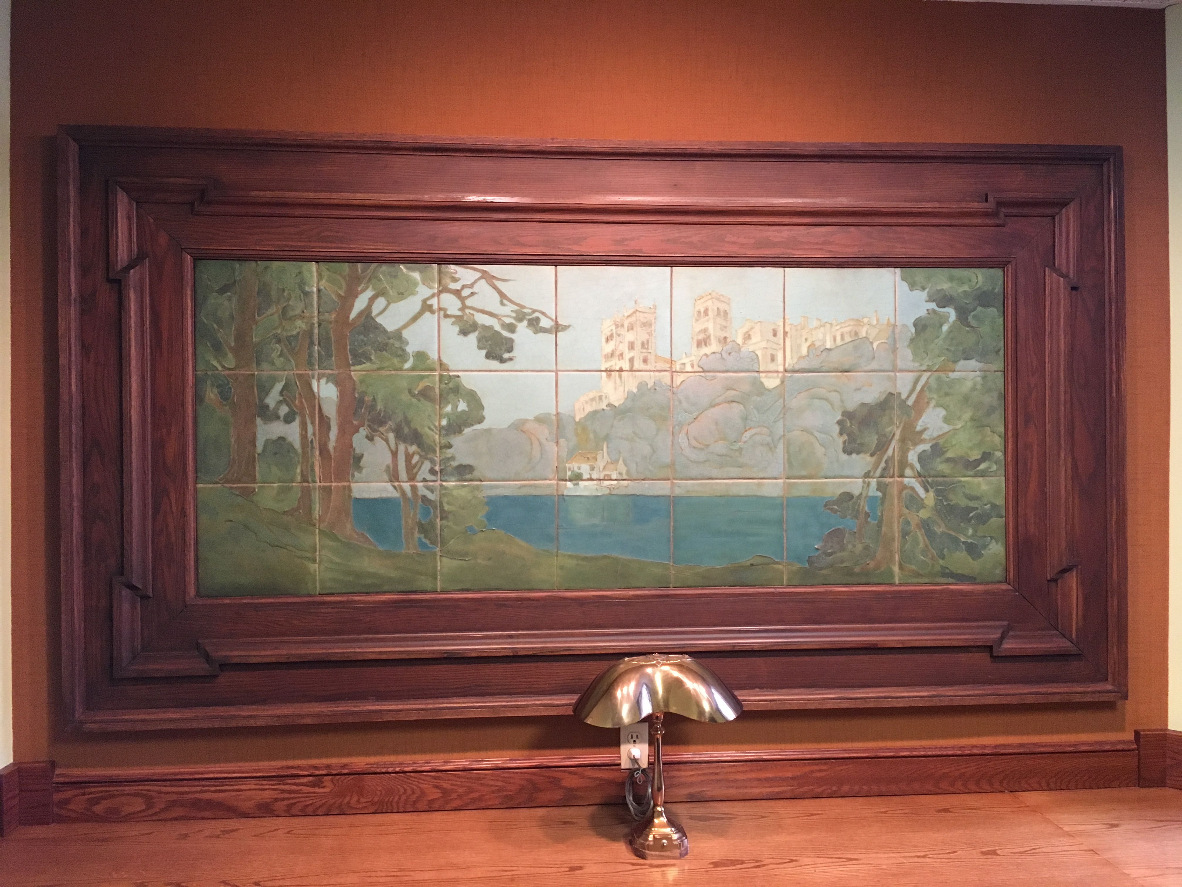 Rookwood Installation at Carnegie West Branch Library of Cleveland Public Library. The article by Richard Mohr outlining the importance of the installation is framed to the left of the tiles themselves in the meeting room. The tiles depict Durham Cathedral in England.